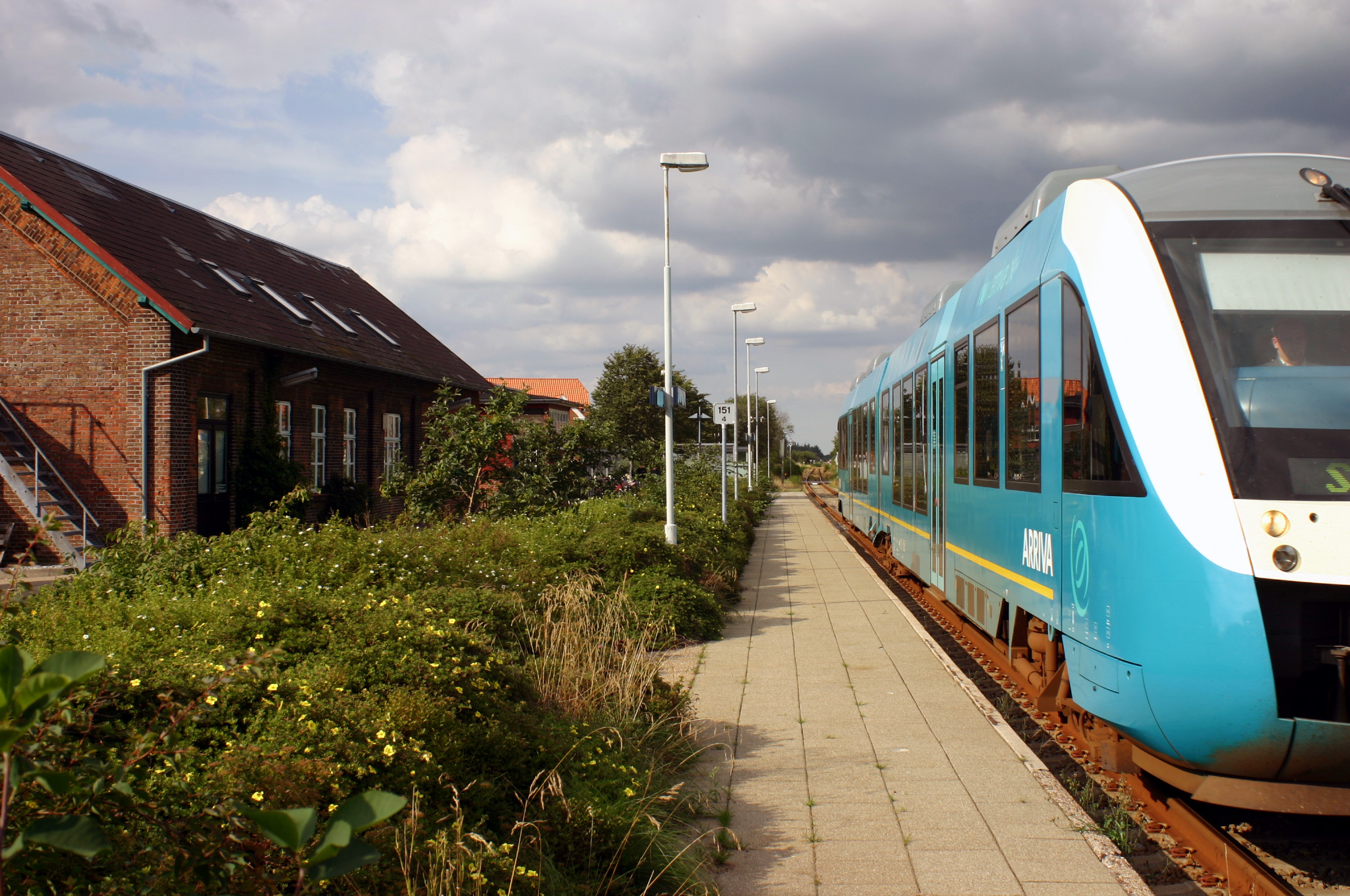 Tim, Denmark, Train Station; ARRIVA's "R 5254/R 5380" from Holstebro st to Aarhus leaves the station of TIM